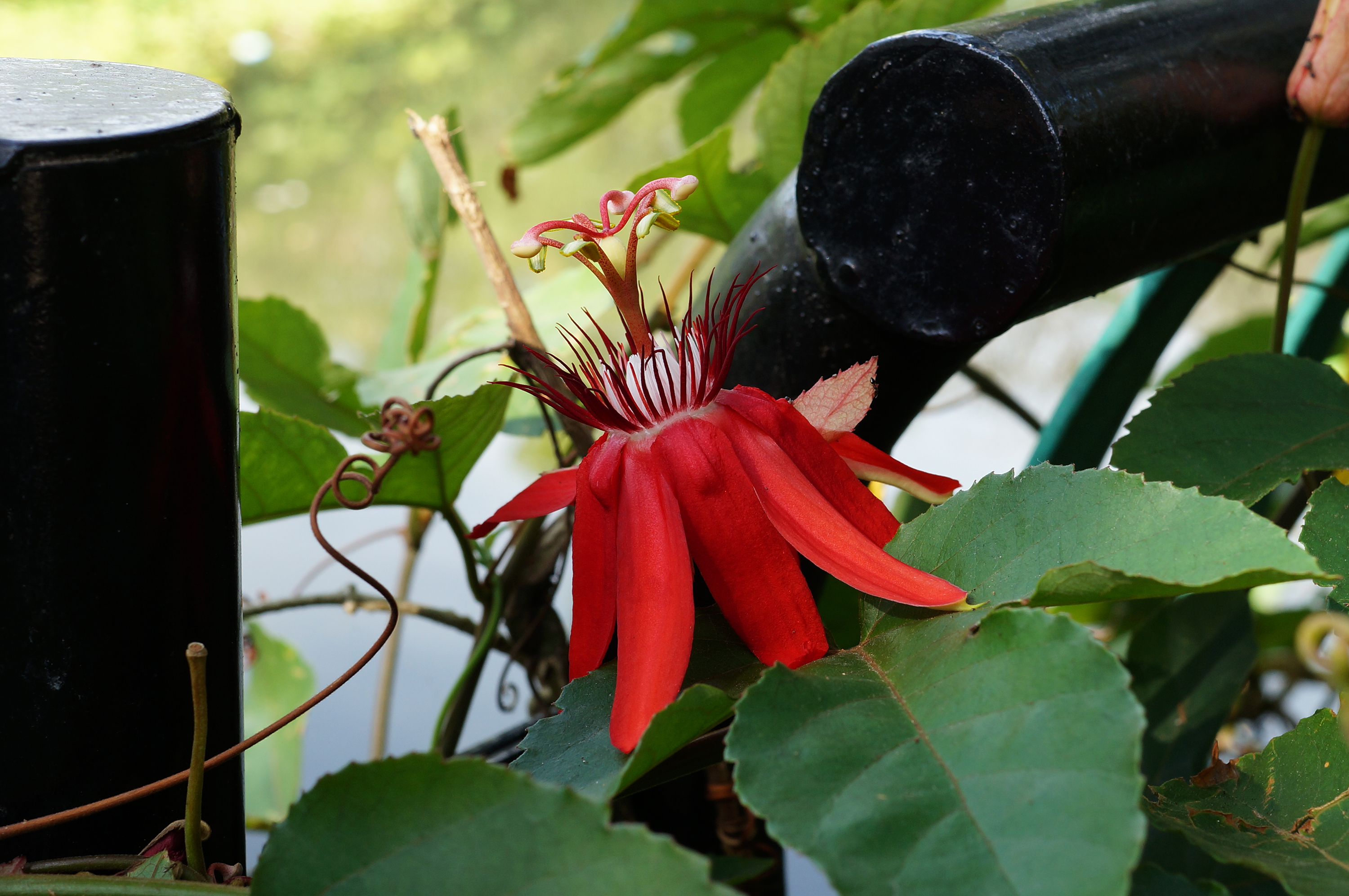 Crimson passion flower